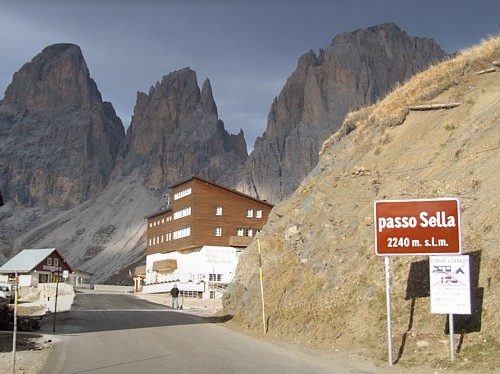 Passo Sella picture taken by user Idéfix november 2, 2006